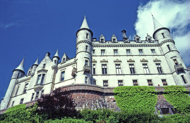 Dunrobin Castle, Sutherland The size and prominence of this castle only really become apparent when standing directly beneath as in this image.